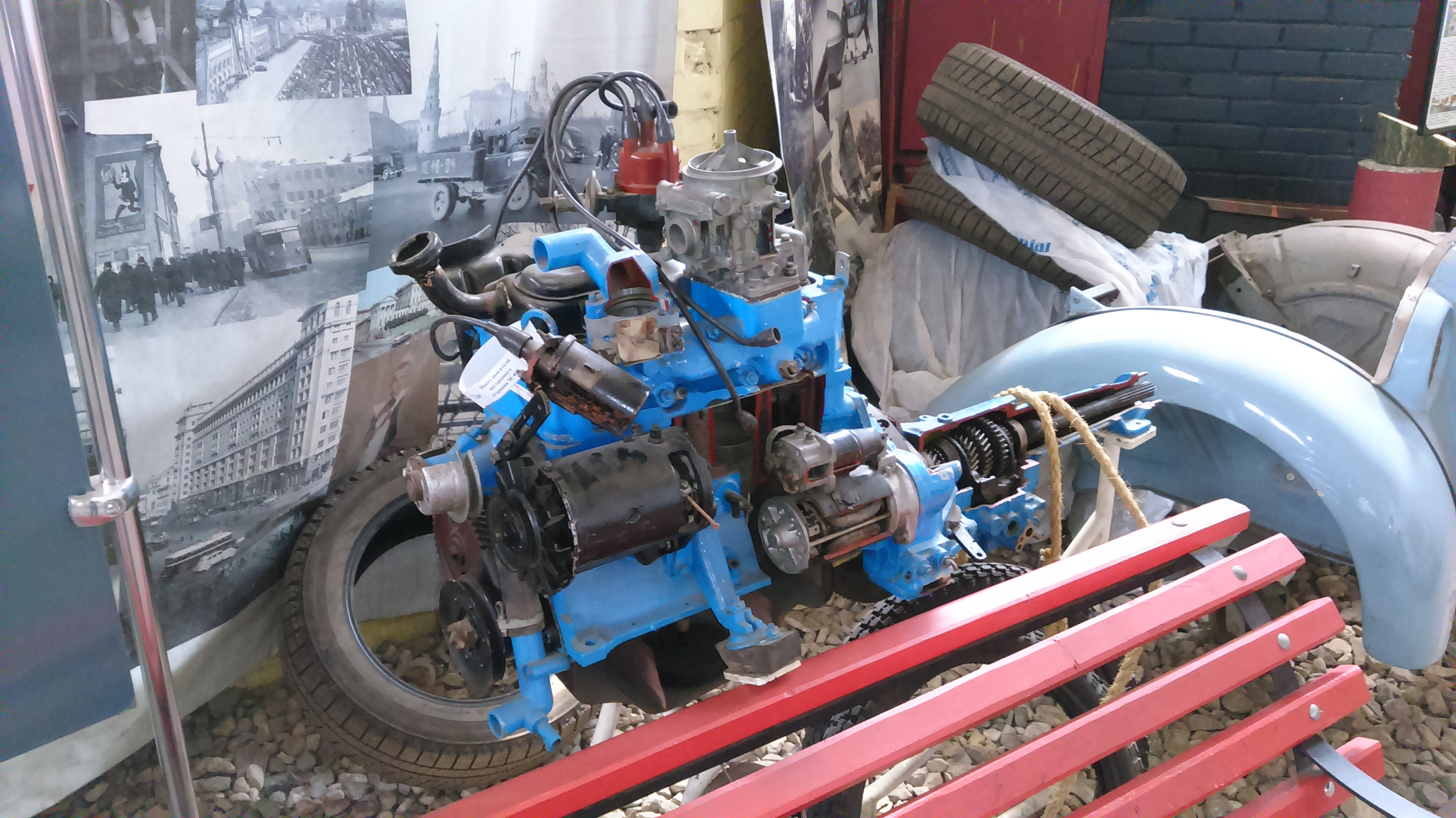 Cutaway view of Moskvitch-408 engine.